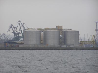 Gdynia Harbour as seen from the sea